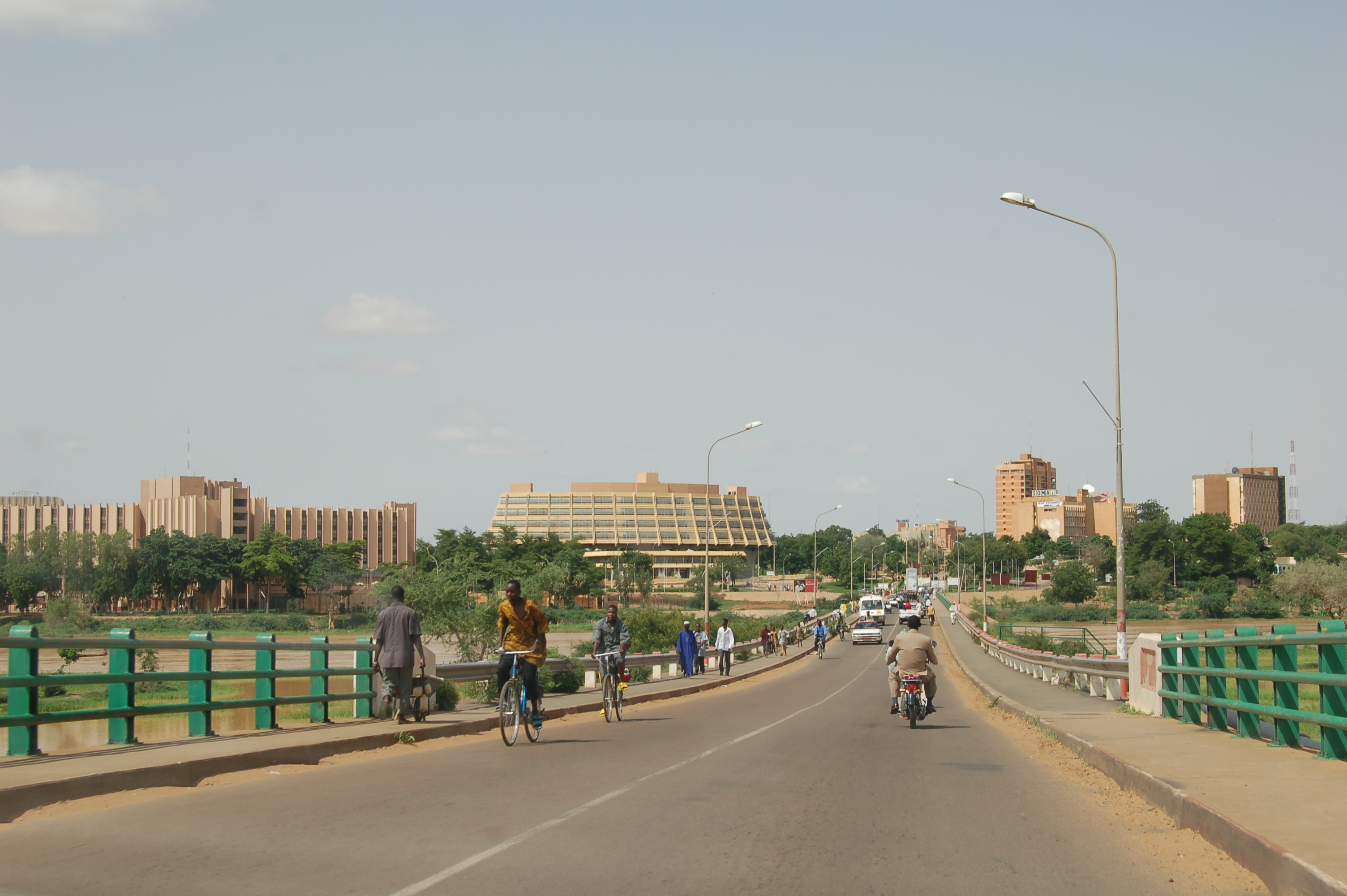 Pont Kennedy, Niamey, Niger